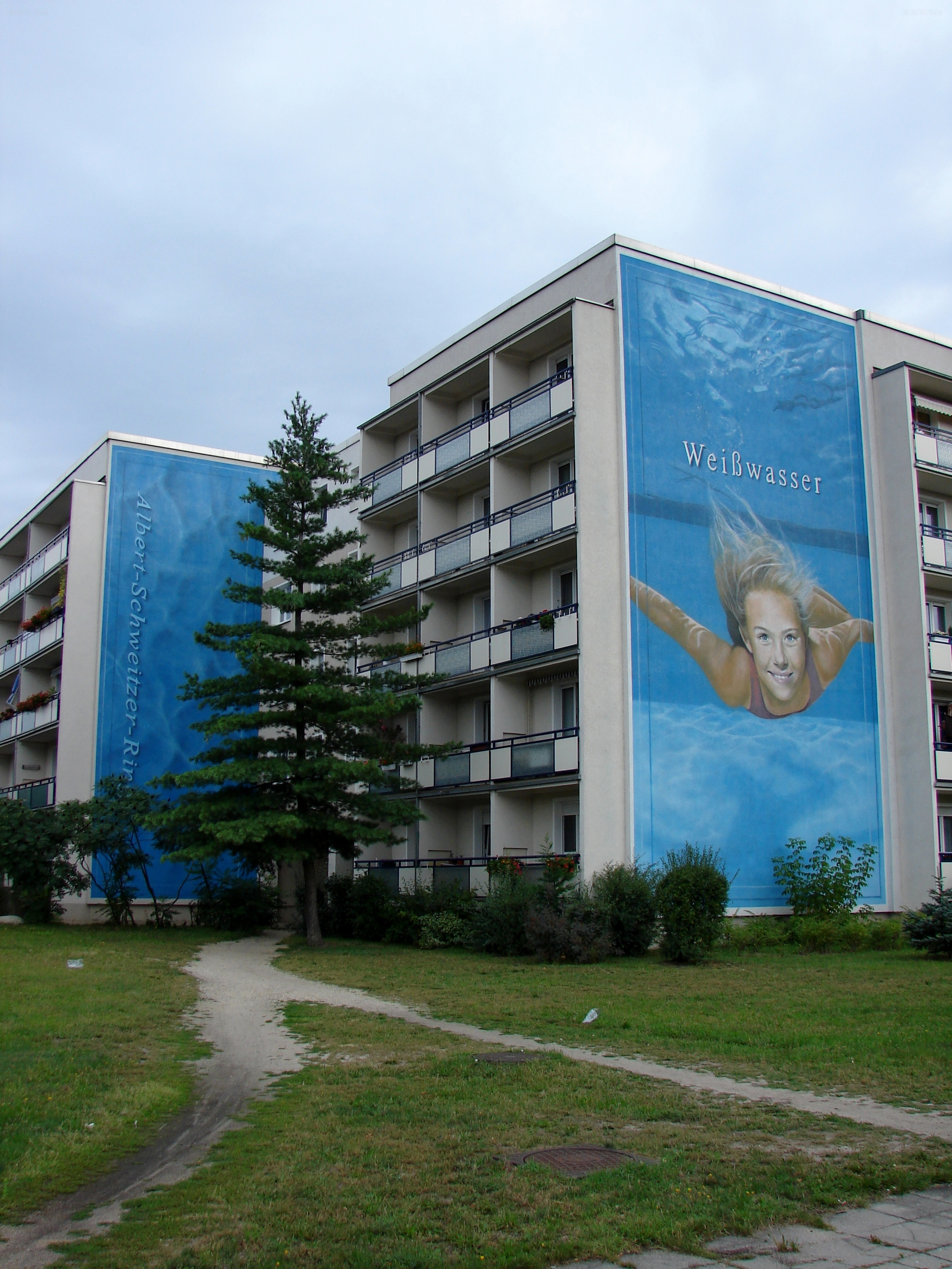 Storefront of a renovated plattenbau in Weißwasser (Germany) Map: 51° 29′ 49″ N, 14° 37′ 54″ E